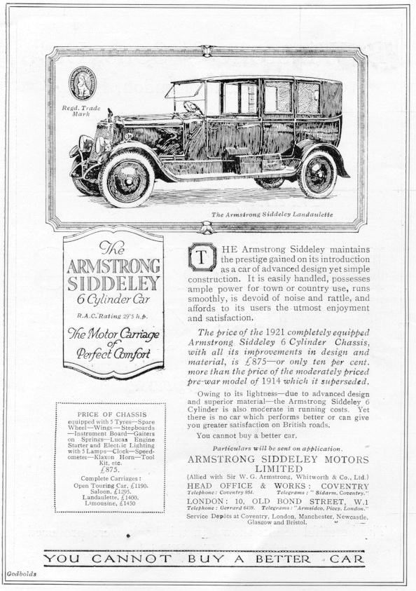 Magazine advert for Armstrong Siddeley 30HP cars including prices for a bare chassis £875, Open touring Car £1190, Saloon £1295, Landaulette £1400, and Limousine £1450.